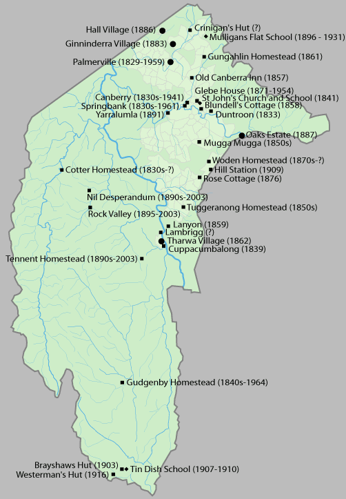 Map of the ACT showing buildings existing before the creation of the ACT Drawn by me in Illustrator and released under the GFDL